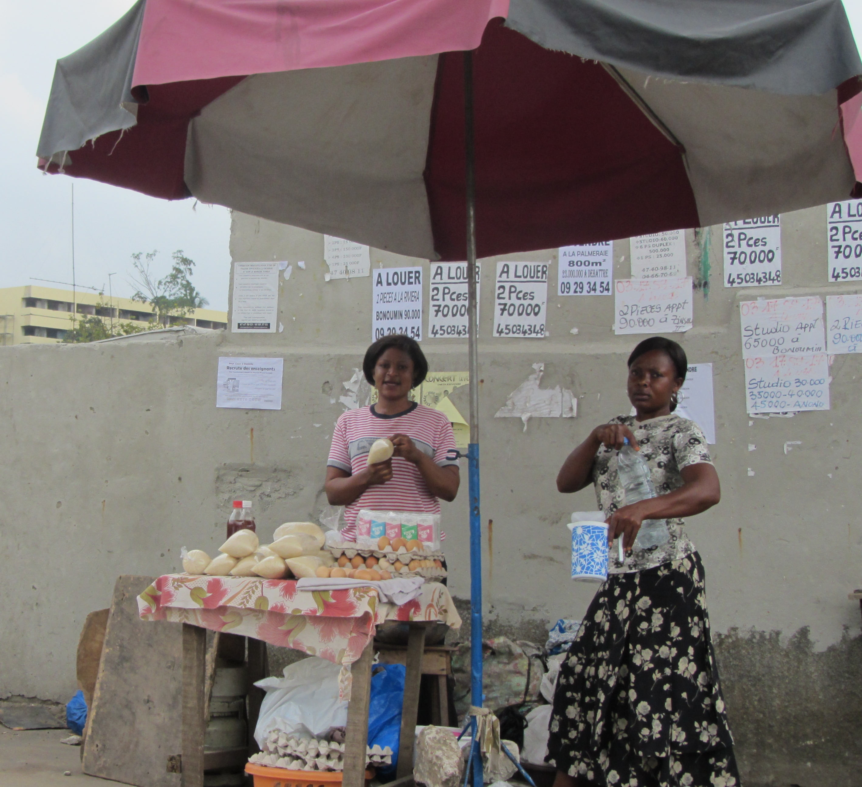 Street sellers of eggs and attiéké (couscous with cassava), Abidjan (Côte d'Ivoire)